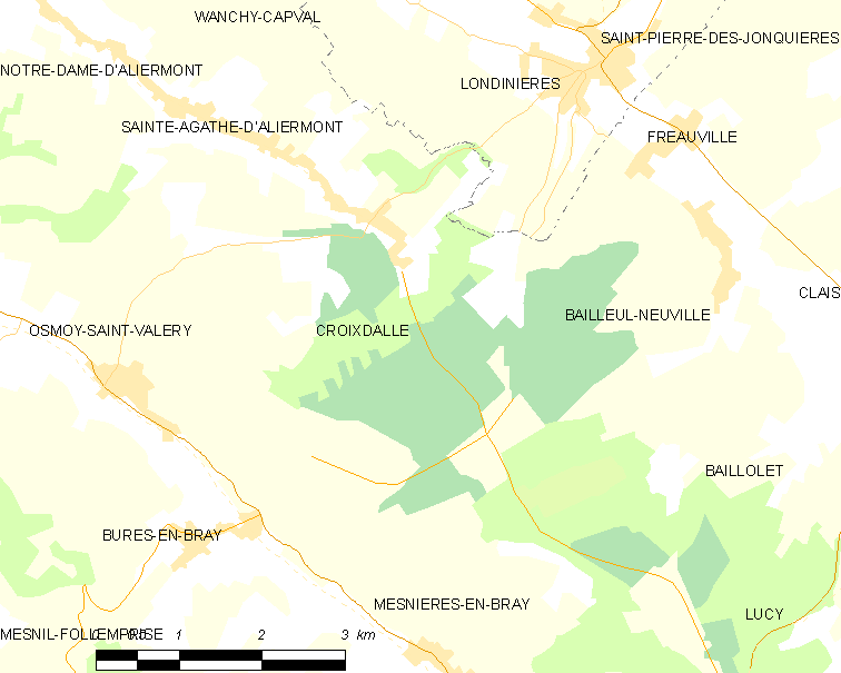 Map of French municipality Croixdalle